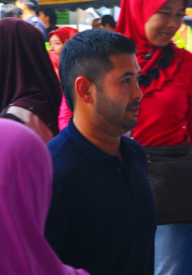 Tunku Ismail Idris ibni Sultan Ibrahim Ismail